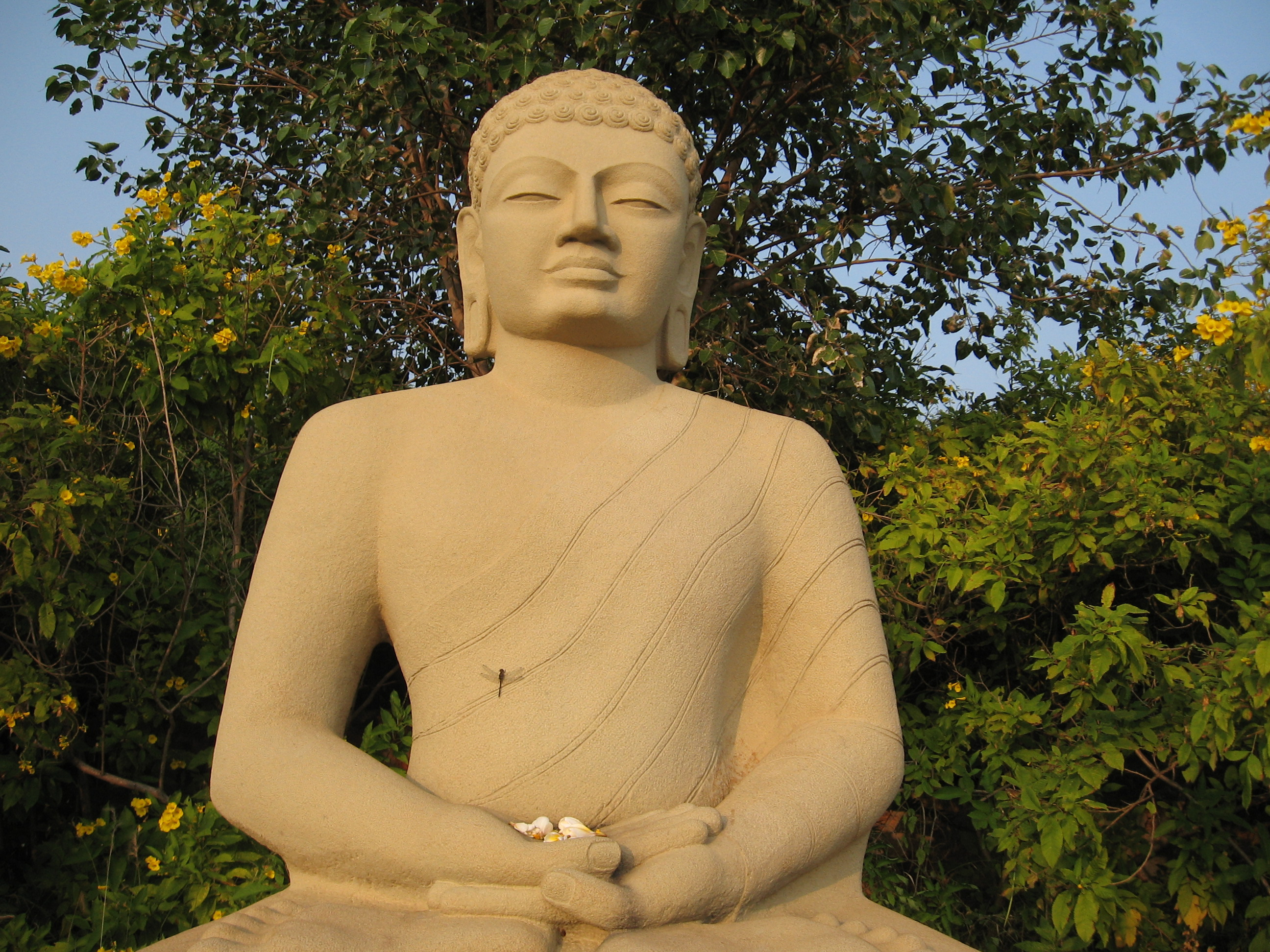 the statue of buddha in thotlakonda,visakhapatnam